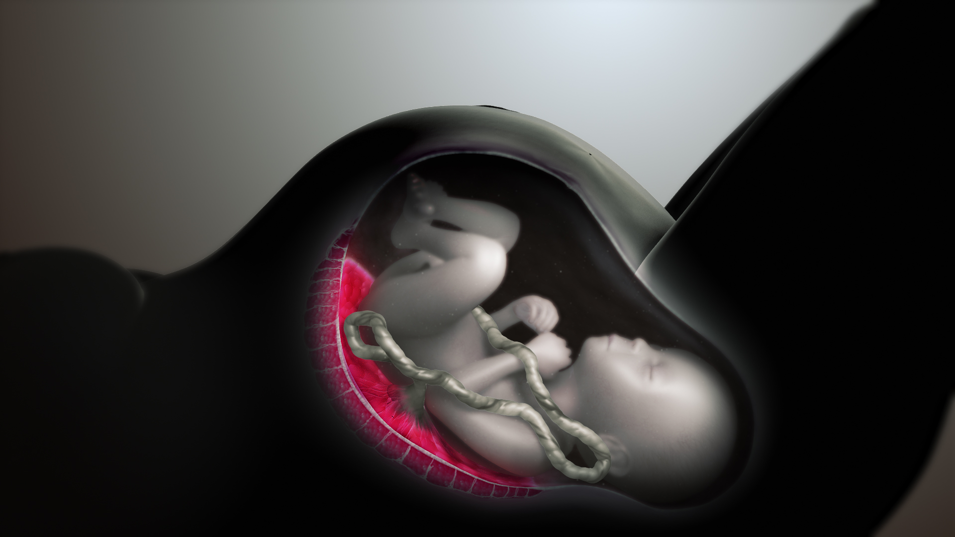 Placenta in humans linking the fetus to the mother.